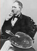 Carl Timoleon von Neff, photo from the 1860-1870s